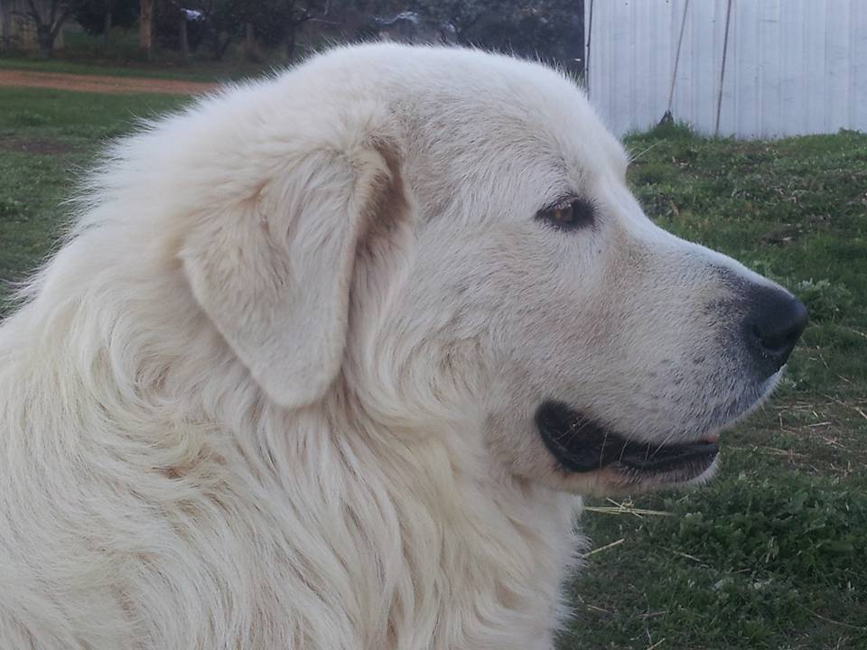 Maremma Sheepdog